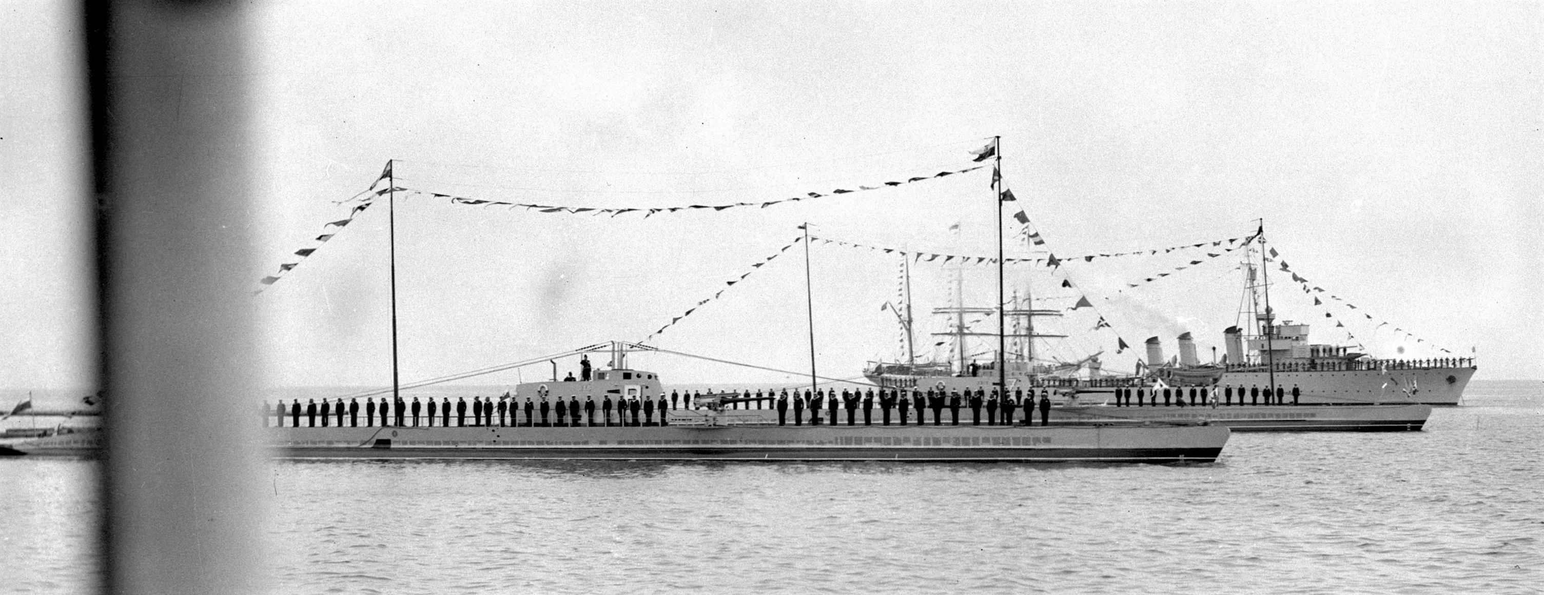 Polish submarines ORP Rys, ORP Żbik and destroyer ORP Wicher in flag gala, during The Day of Sea celebration in 1932